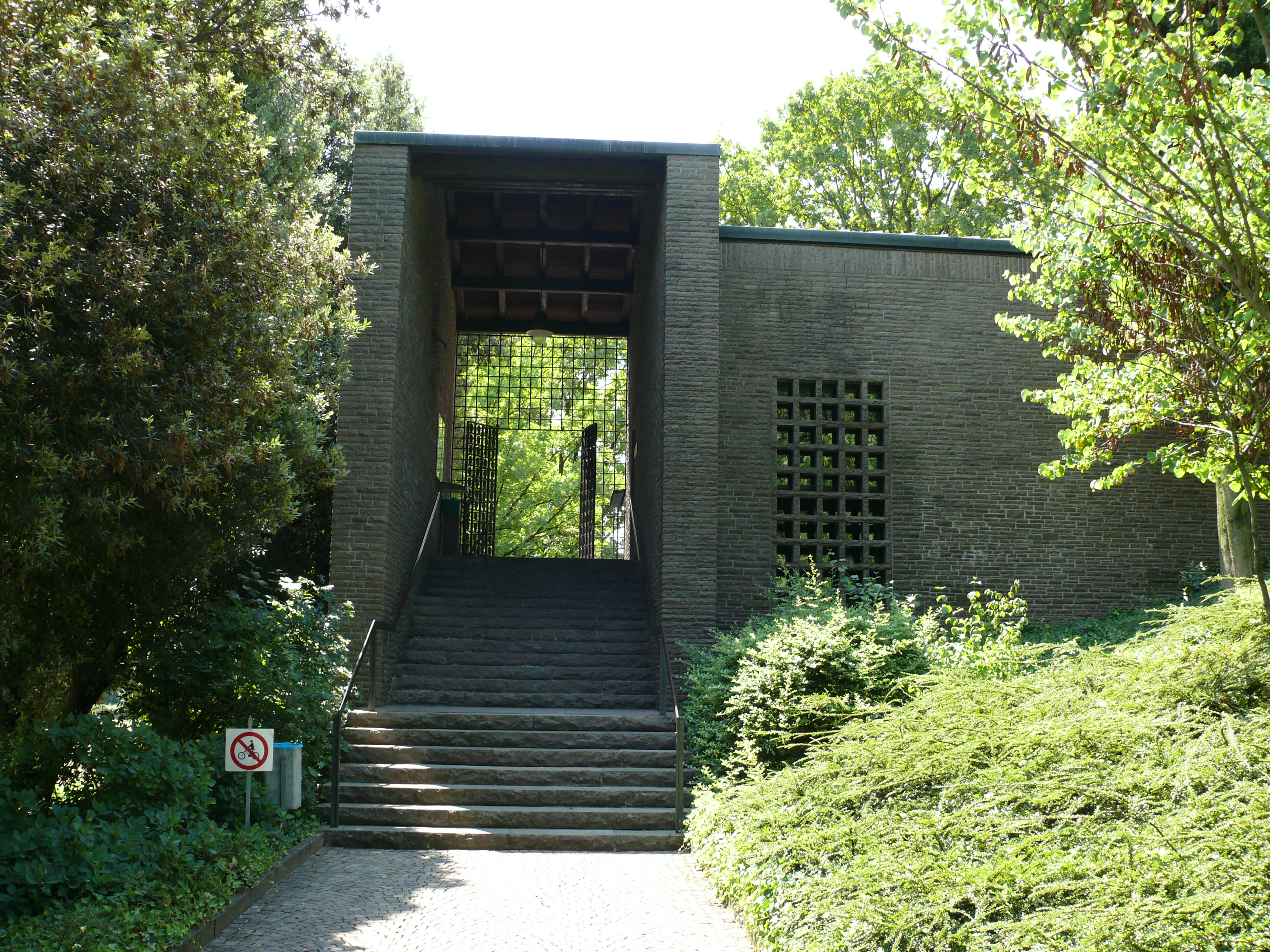 German War Cemetery Costermano (Italy)